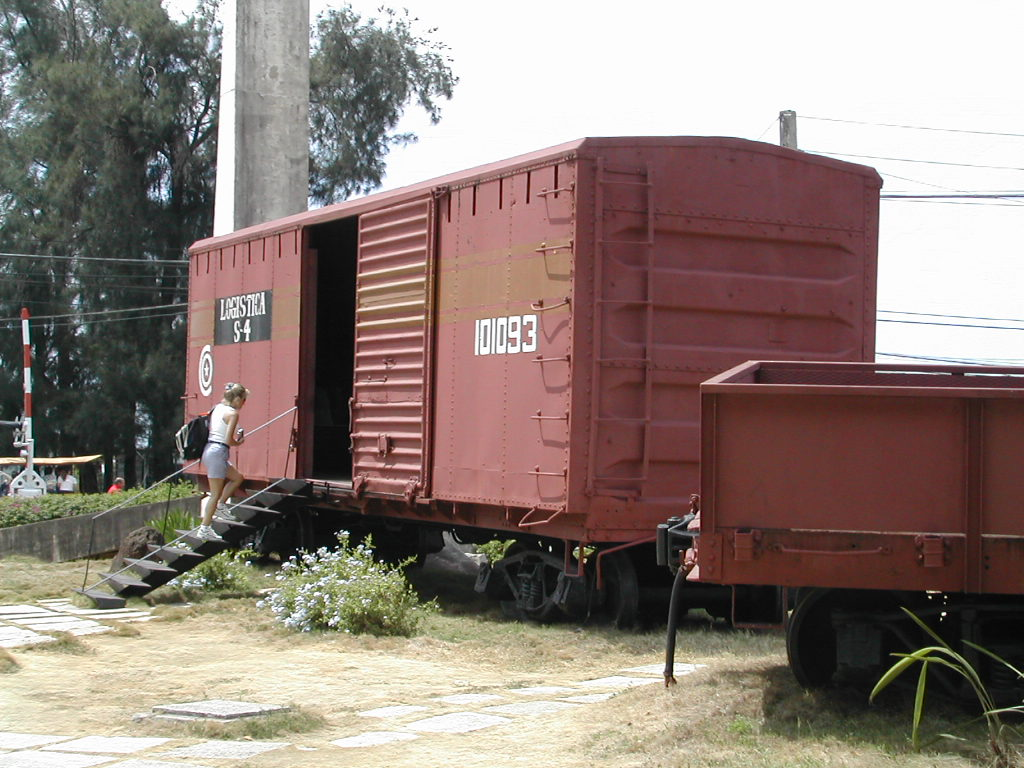 Tren blindado. Batalla de Santa Clara. Revolución Cubana. Che Guevara. Train derailment site (Battle of Santa Clara) in Santa Clara, Cuba Site commemorates Che Guevara's troops derailing reenforcement train before the Battle of Santa Clara